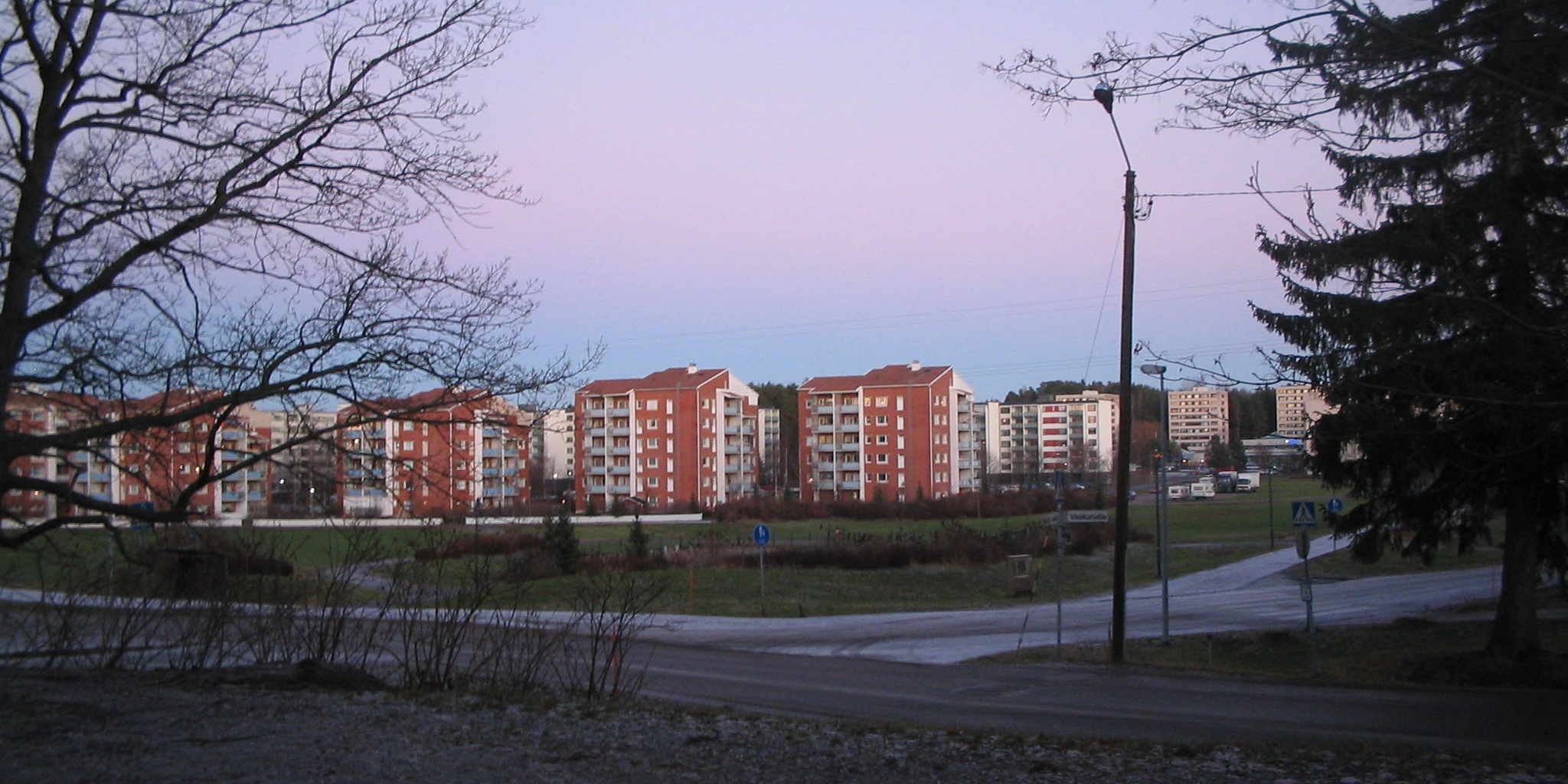 Habitation in Kaarina